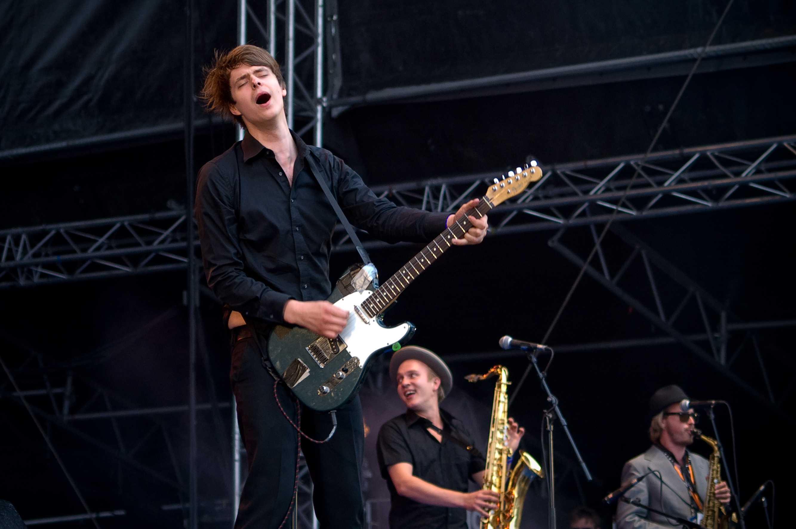 Damn Seagulls at Ruisrock 2007